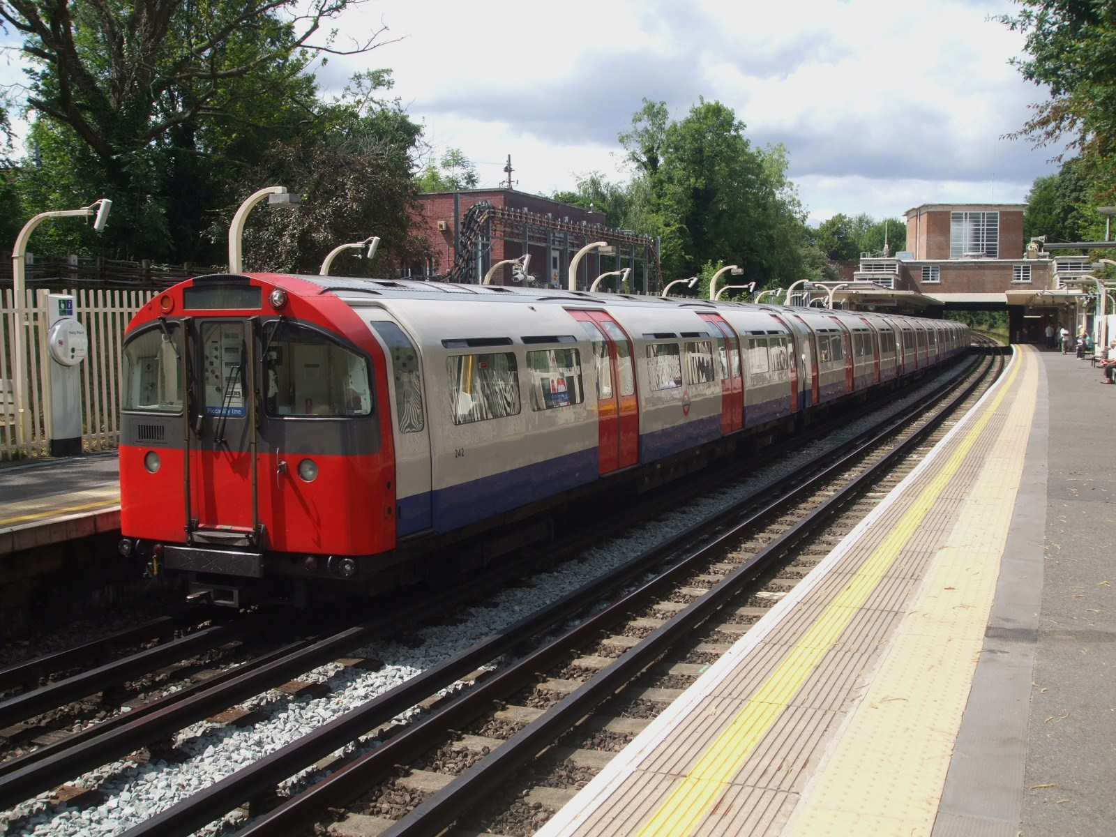 A train of Piccadilly line 1973 stock calls at Eastcote tube station with a westbound service